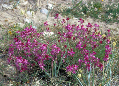 Photo: B4261008, Plant in habitat. Plant growing on slumping silt banks in Nunavut, near Rankin Inlet, at Pedung Creek, Kaminak Lake, between Esquimo Point and Rankin Inlet, 22 July 1973, elevation 173 feet, J.M. Gillett 16149. CAN. Photo reproduced courtesy of the Canadian Museum of Nature, Ottawa, Canada.